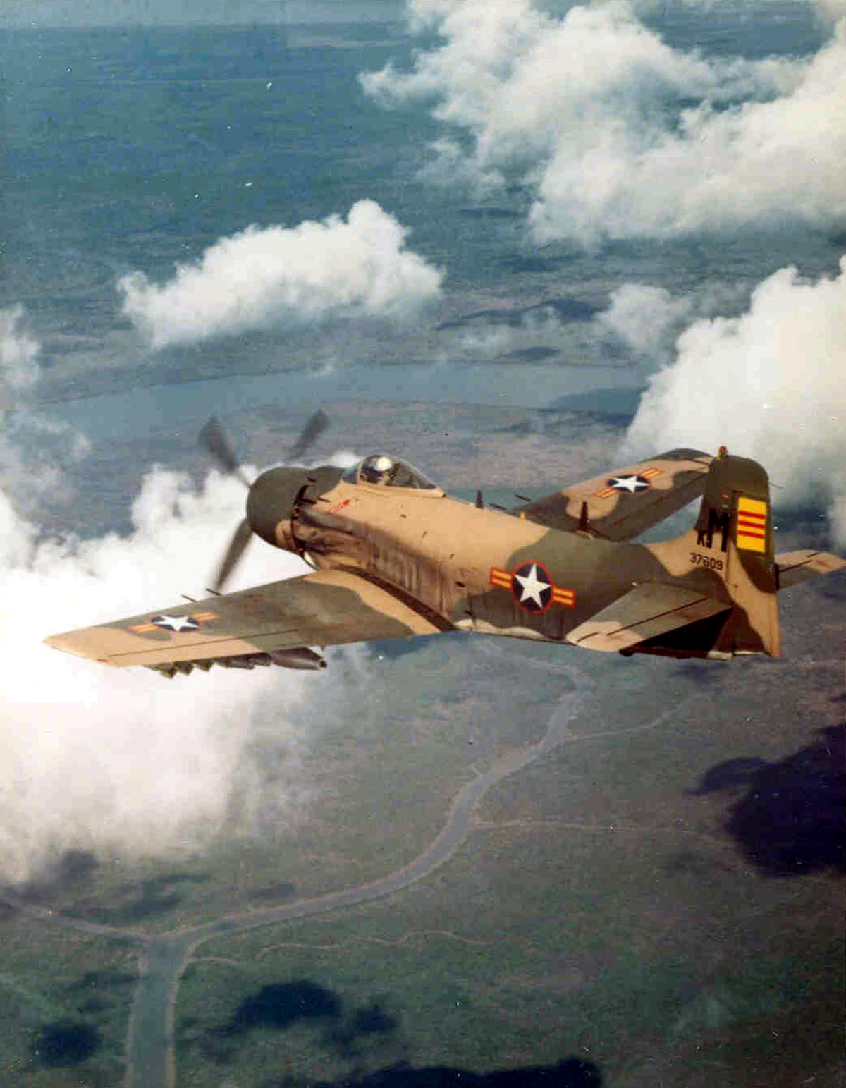 A Douglas A-1H Skyraider (U.S. Navy BuNo 137609) of the South Vietnamese Air Force (VNAF) in May 1966.